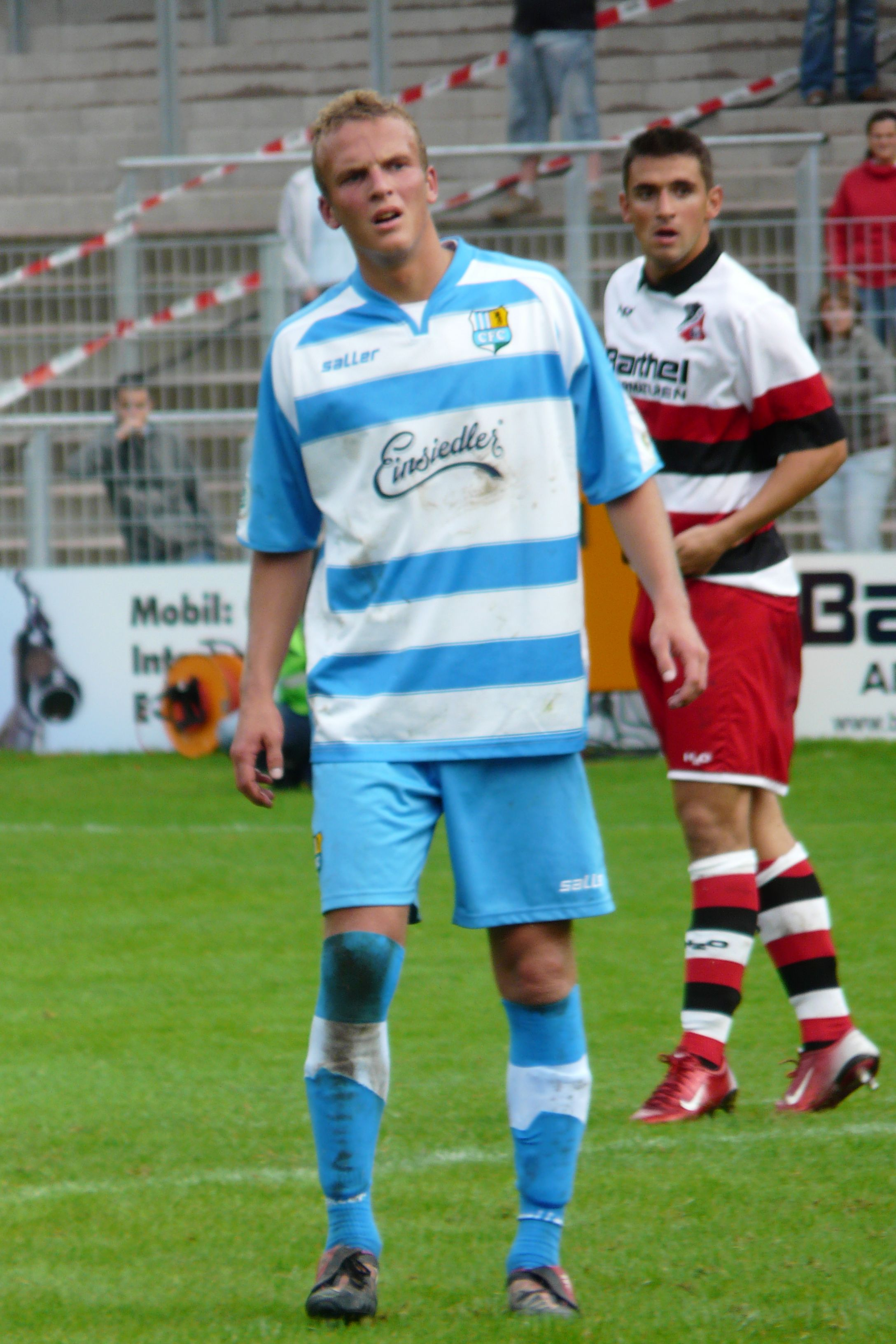 Julius Reinhardt as Player from Chemnitzer FC